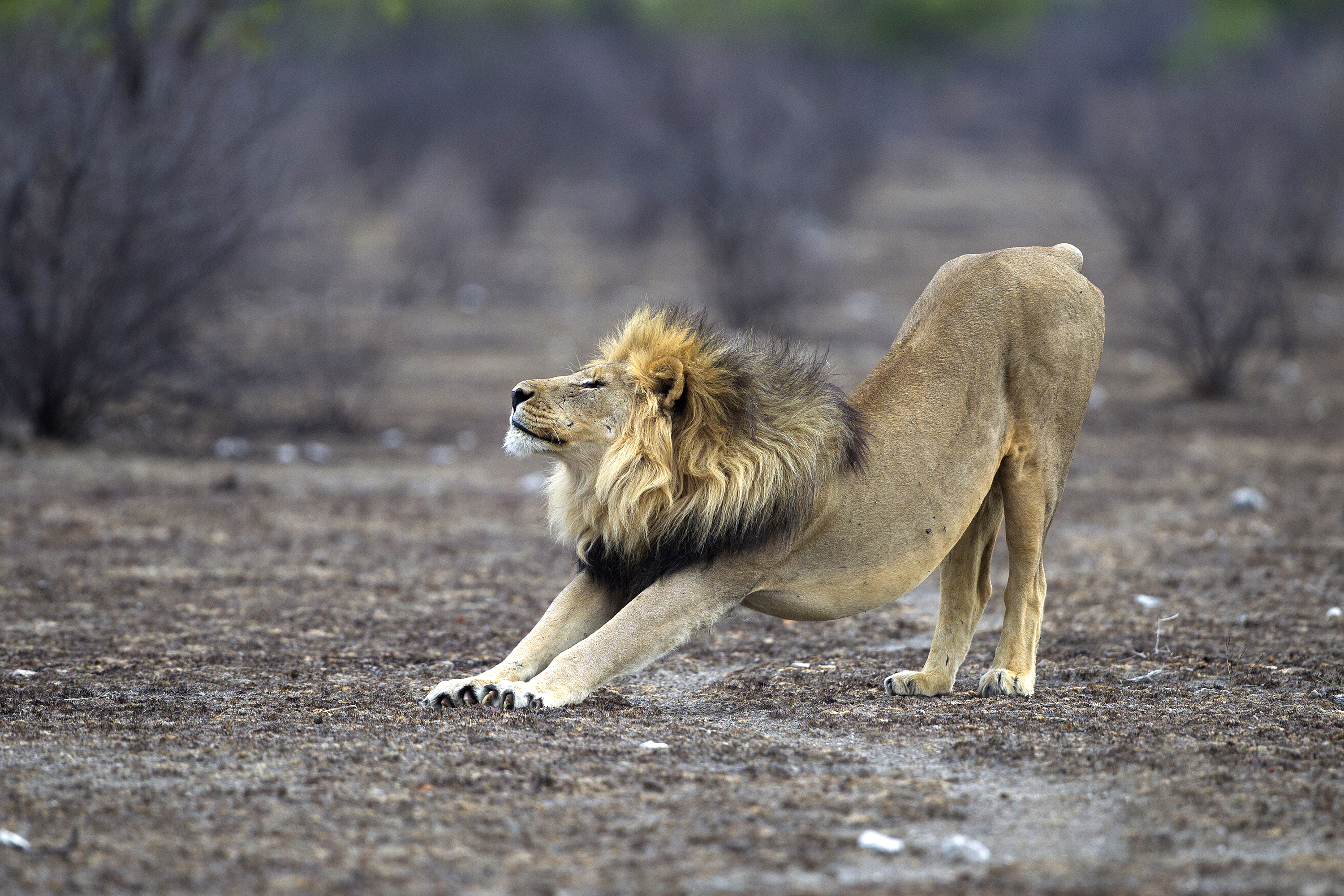 Adult male lion of the Okondeka pride stretching in Etosha National Park